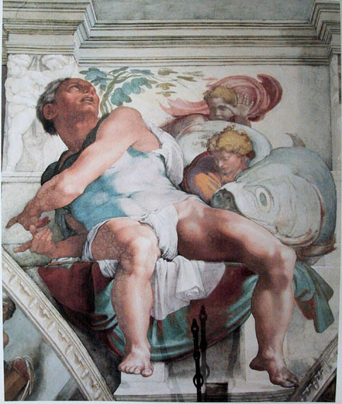 The Prophet Jonah, as depicted by Michelangelo in the Sistine Chapel